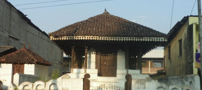 Badulla Kataragama devale